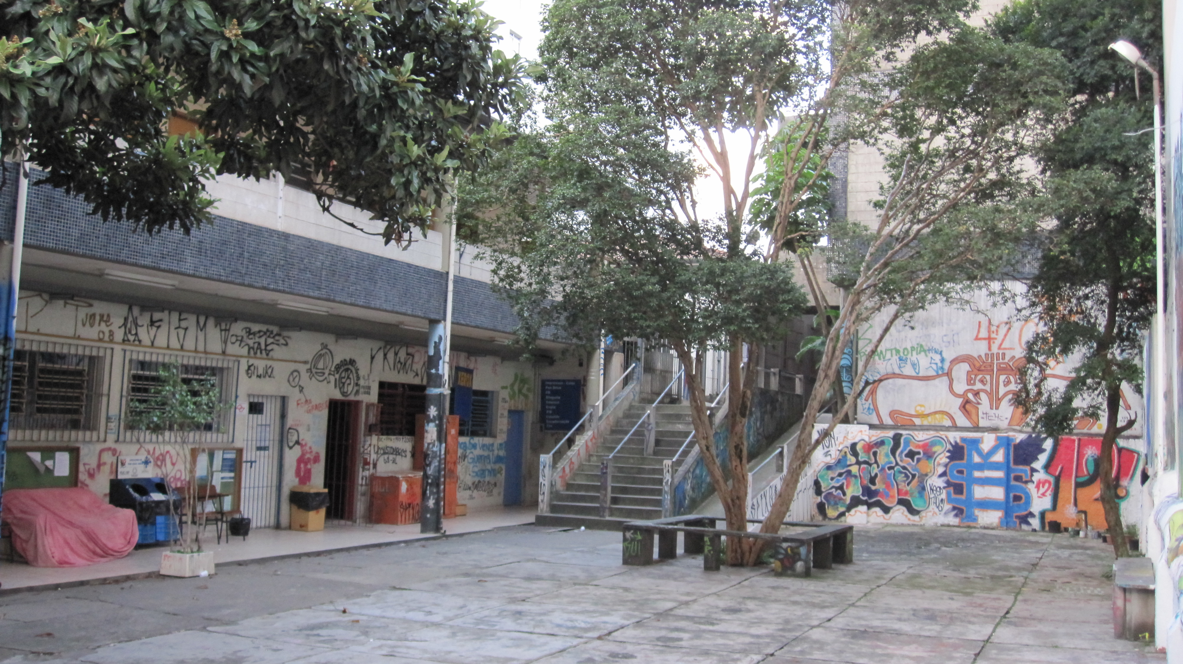 Patio inside Faculdade de Filosofia, Comunicação, Letras e Artes da Pontifícia Universidade Católica de São Paulo (School of Philosophy, Communication, Letters and Arts of the Pontifical Catholic University of São Paulo). The building is now partially deactivated